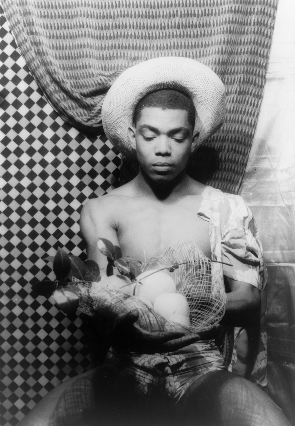 Portrait of Alvin Ailey in en:1955 CREDIT: Carl Van Vechten, photographer. "Portrait of Alvin Ailey." 1955 Mar. 22. Creative Americans: Portraits by Carl Van Vechten, 1932-1964, Library of Congress. In the public domain: he:תמונה:Alvin Ailey.jpg